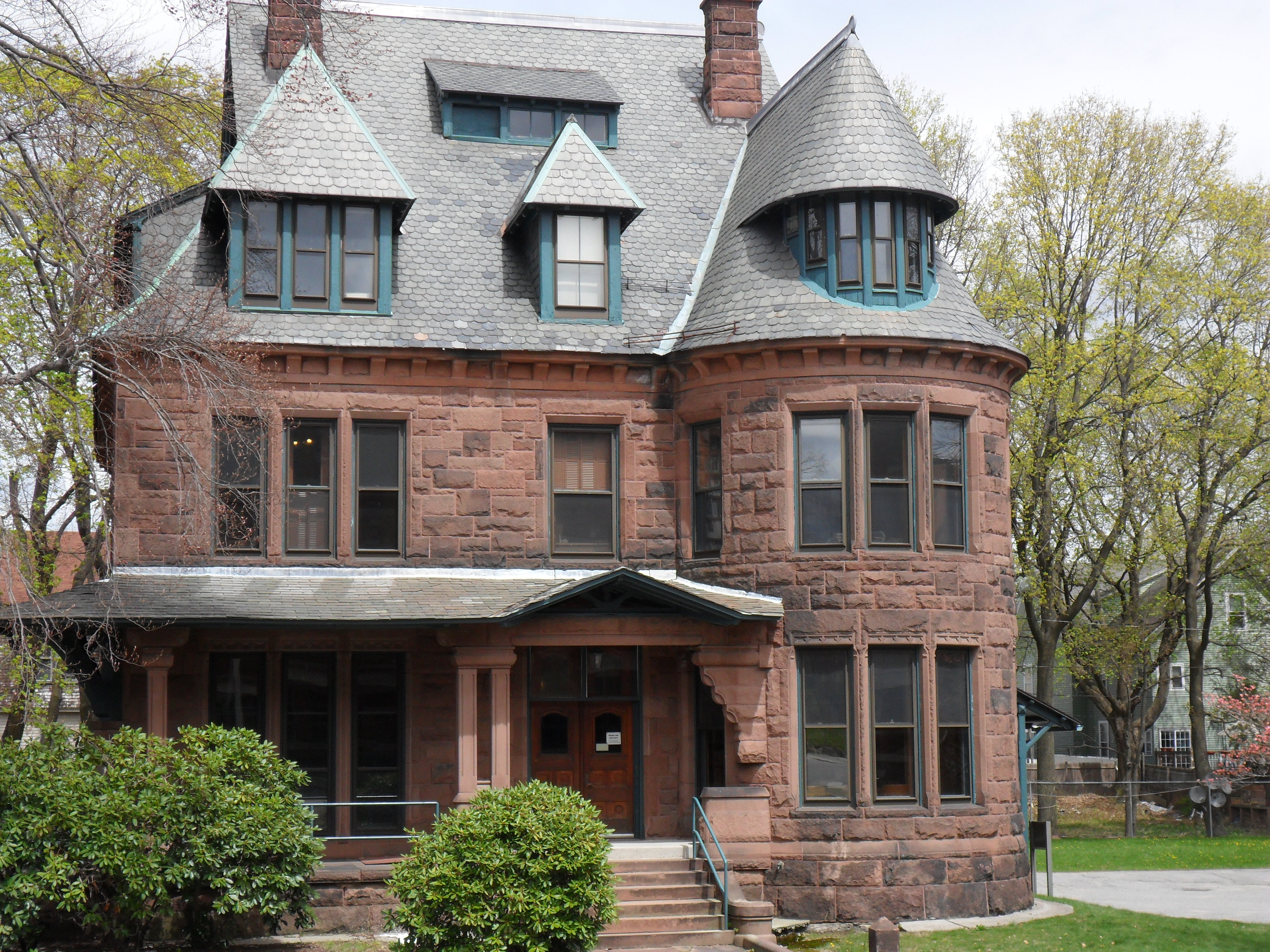 Orlando W. Norcross House, 16 Claremont Street, Worcester, Massachusetts, otherwise known as the George Perkins Marsh Institute